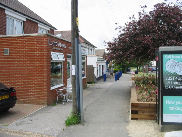 Shops on Hawkinge main street